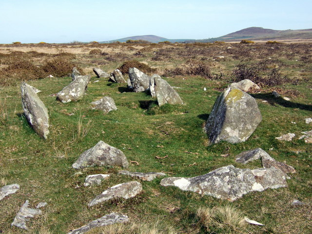 Bedd yr afanc, looking east-southeast The water monster's grave is the name that has long been attached to this unique Welsh gallery grave with an east-west orientation below the northern scarp of Mynydd Preseli. It is notoriously difficult to find, being surrounded by bog, unmarked and low to the ground, but there are good directions to be found here (thank you Kammer!) It's a good idea to attempt it only in clear, dry weather. In the distance here are the summits of Frenni Fawr and Foel Drygarn.